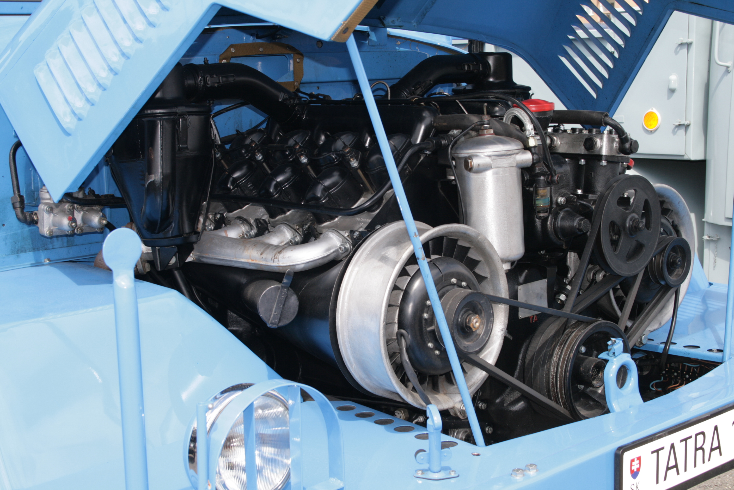 Tatra 128 engine